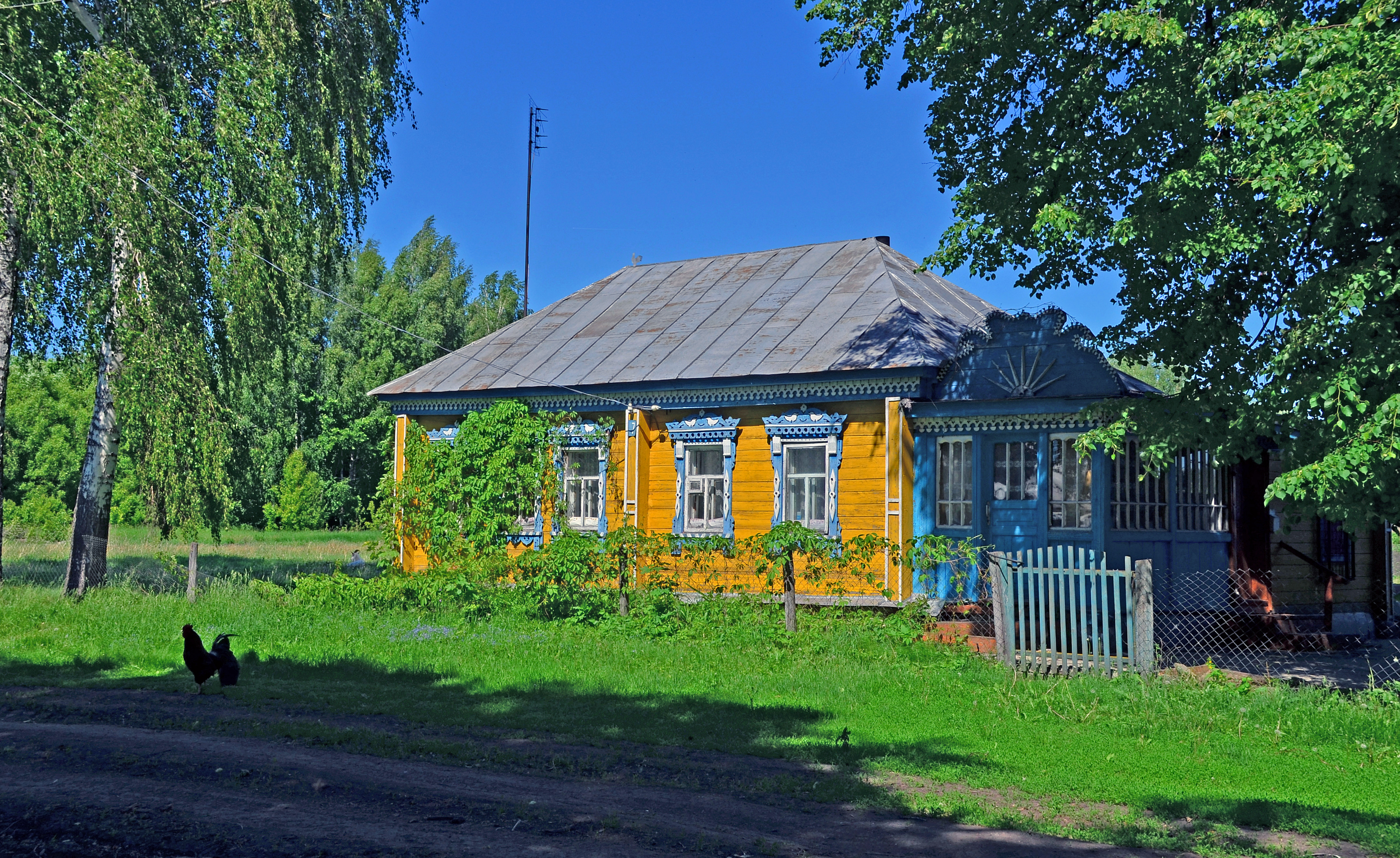 Log houses in Russia.